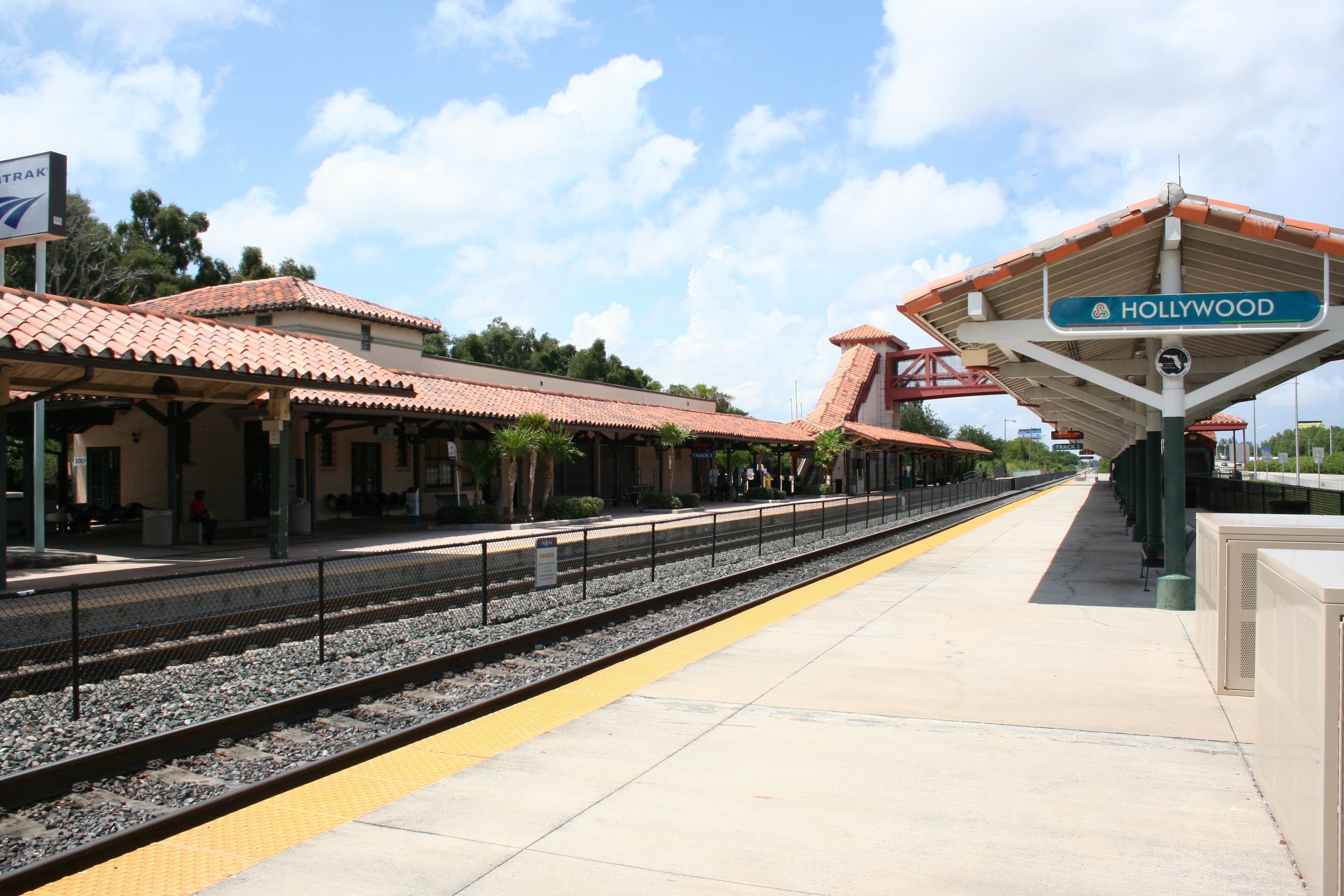 Hollywood Amtrak and Tri-Rail Station (former Seaboard Air Line Railway station)